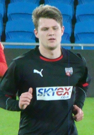 Jake Reeves playing for the Brentford Development Squad in January 2013. Other information Cropped from original.